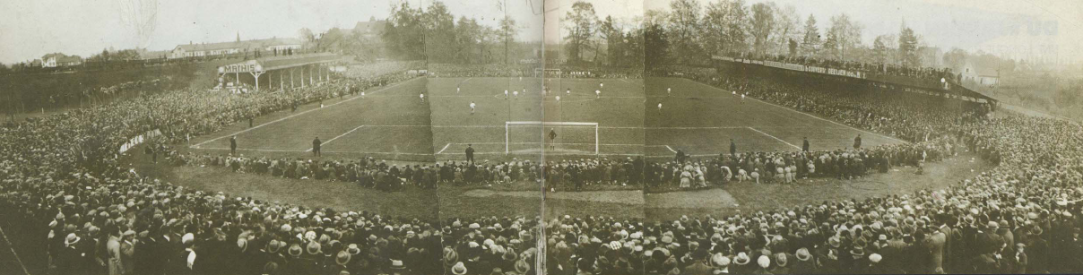 Match RC Strasbourg - FC Mulhouse au Stade de la Meinau